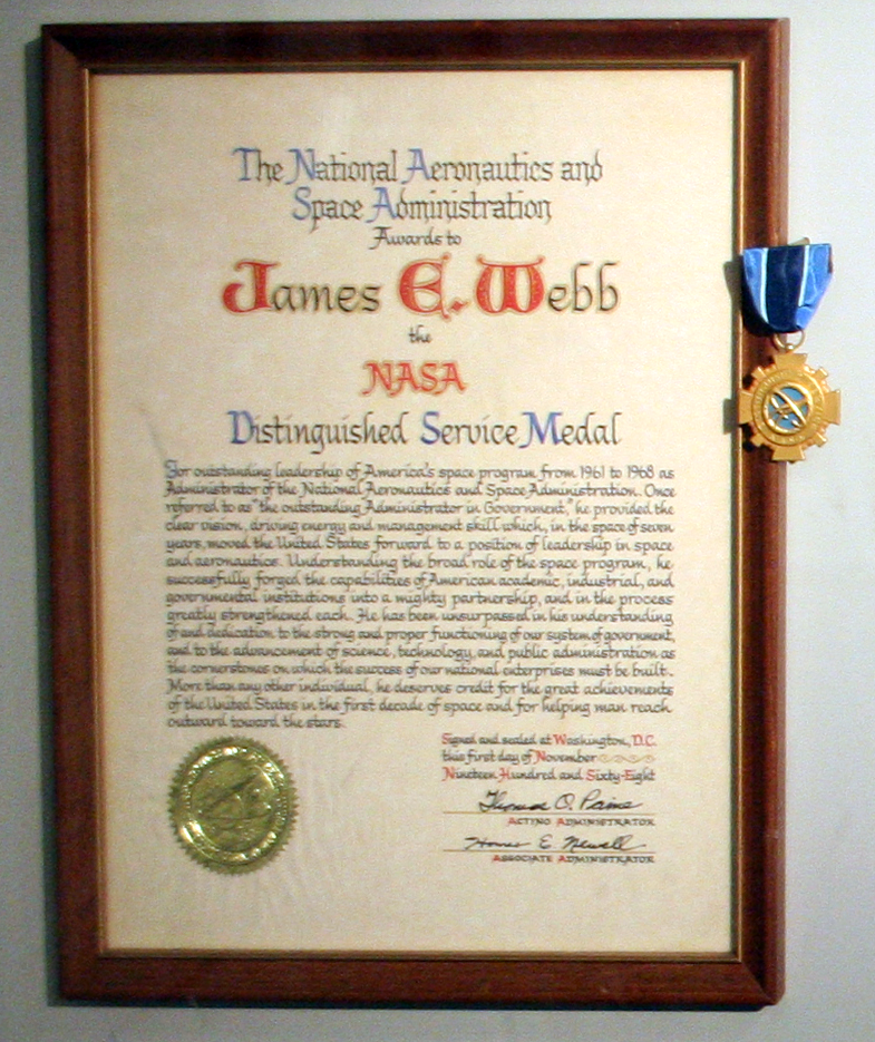 Distinguished service award and medal presented to James Webb, on display in the Museum of Life and Science in Durham, North Carolina